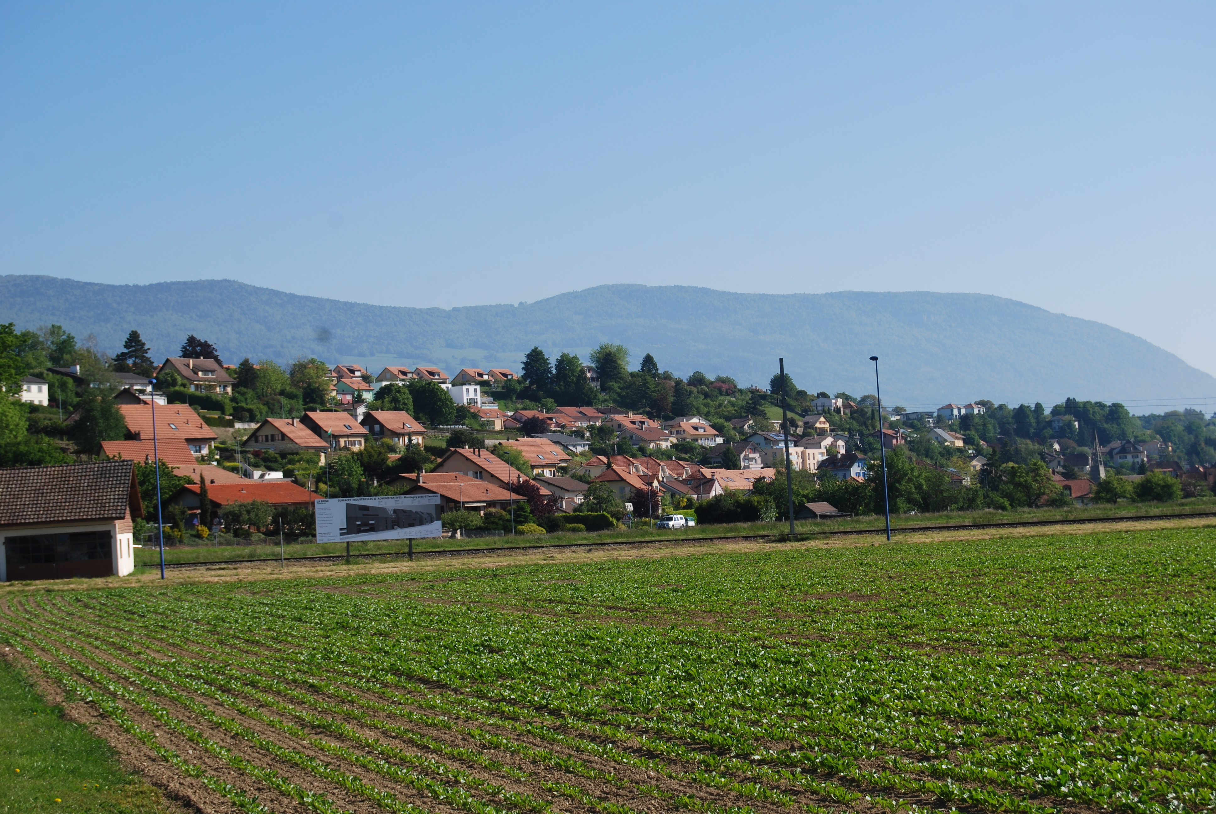 Les Tuileries-de-Grandson , municipality Grandson, canton of Vaud, Switzerland